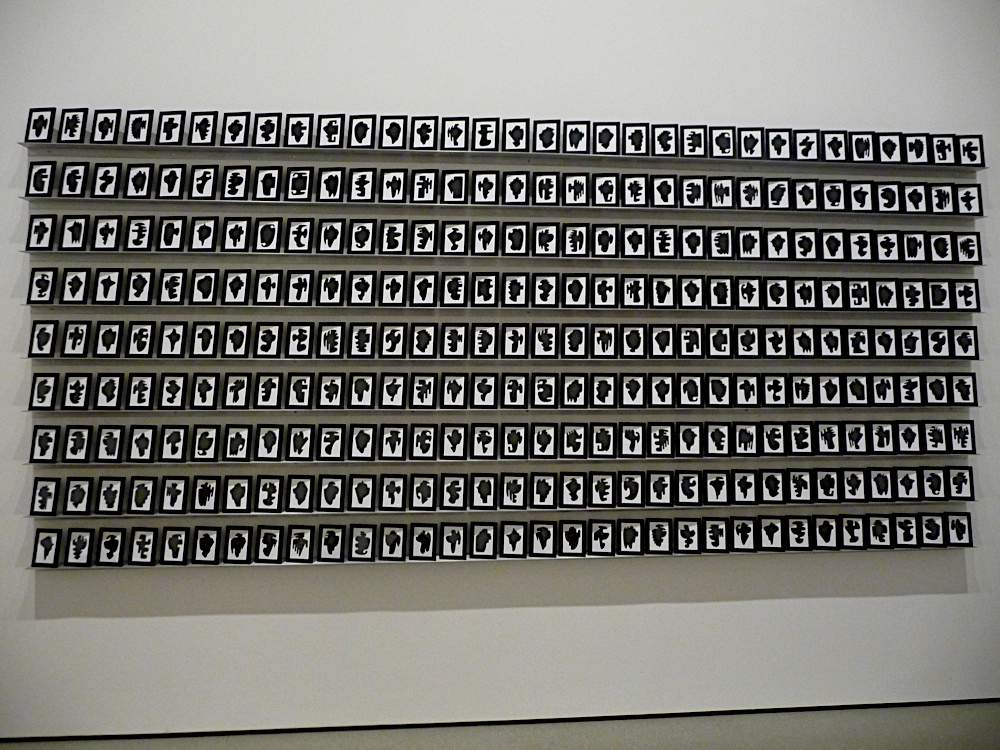 The Shapes Project, by Allan McCollum; collection of the Museum of Modern Art, New York.